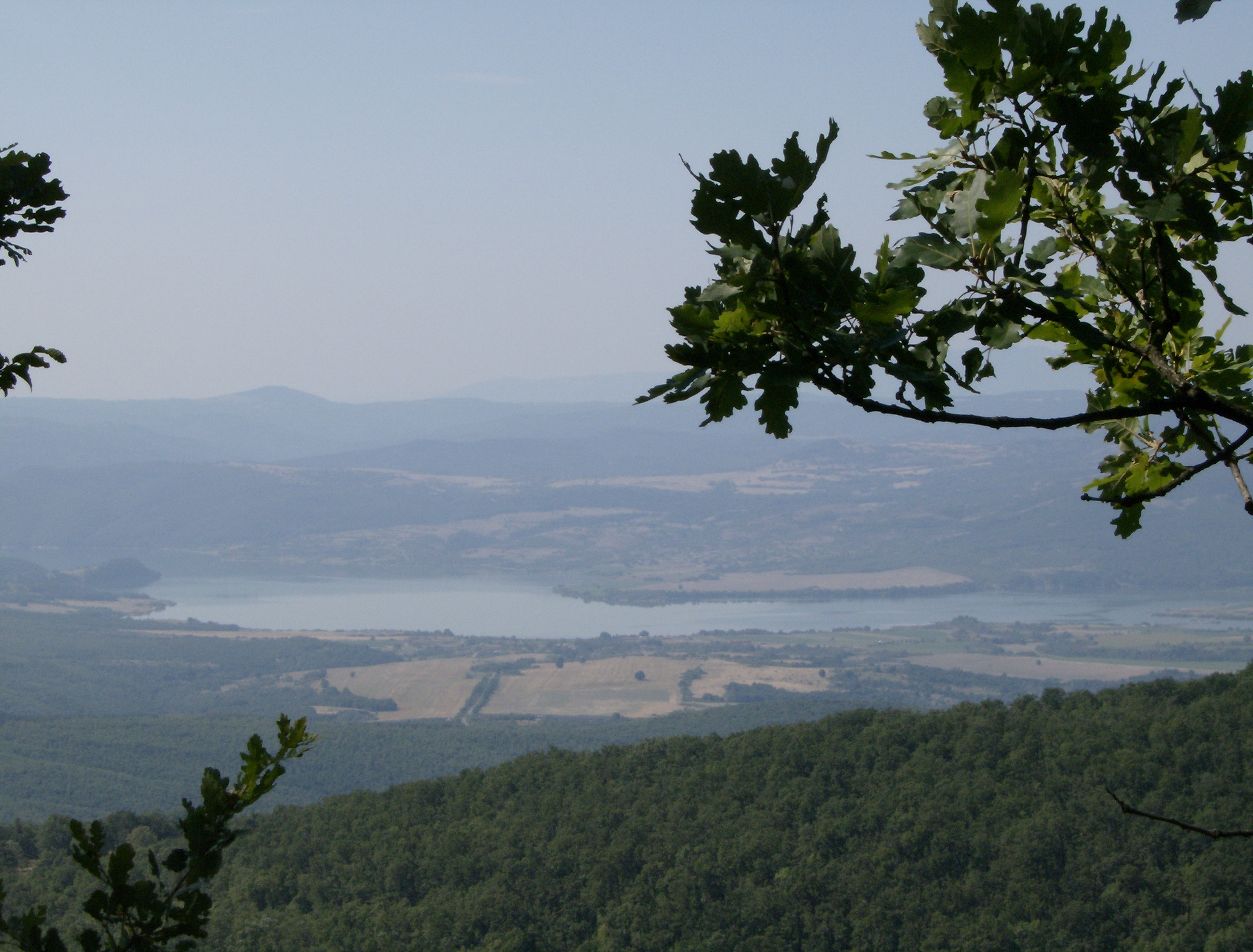 Gluhite kamani